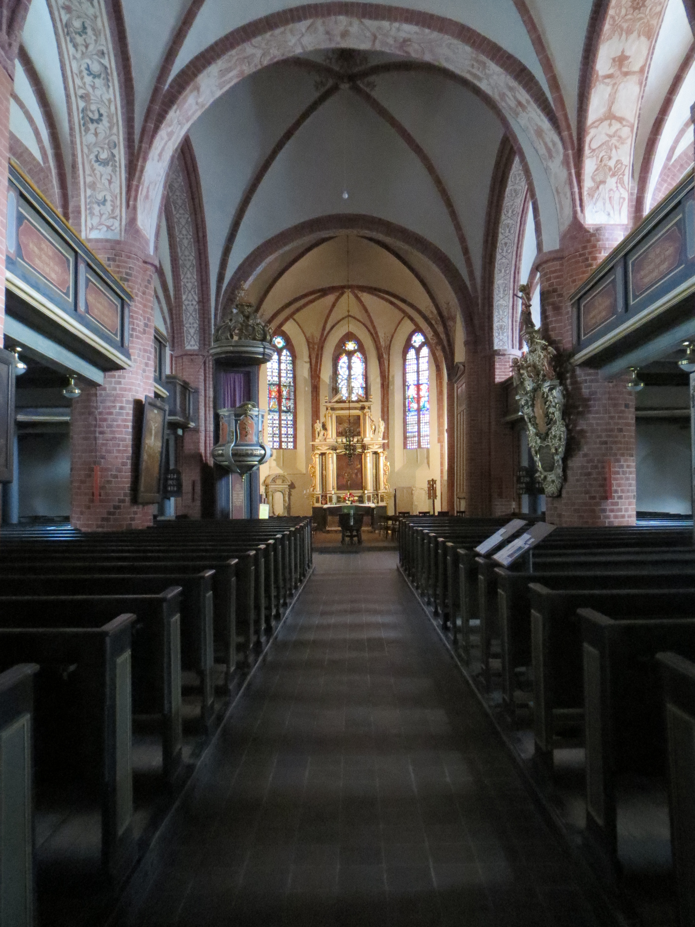 St.-Katharinenkirche Lenzen